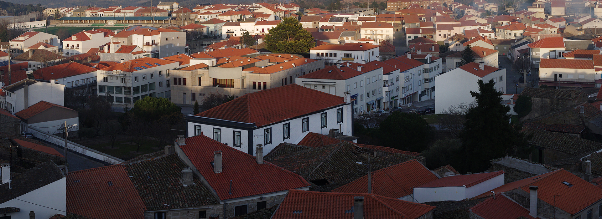 Zona Urbana da Meda